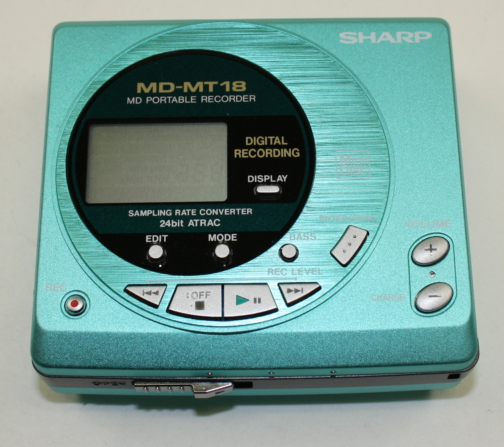 Sharp MiniDisc player MD-MT18